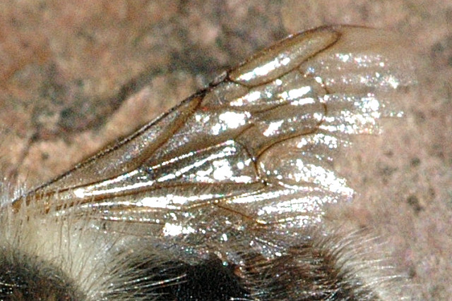 Bombus sp. possibly Bombus sylvarum from Commanster, Belgian High Ardennes .